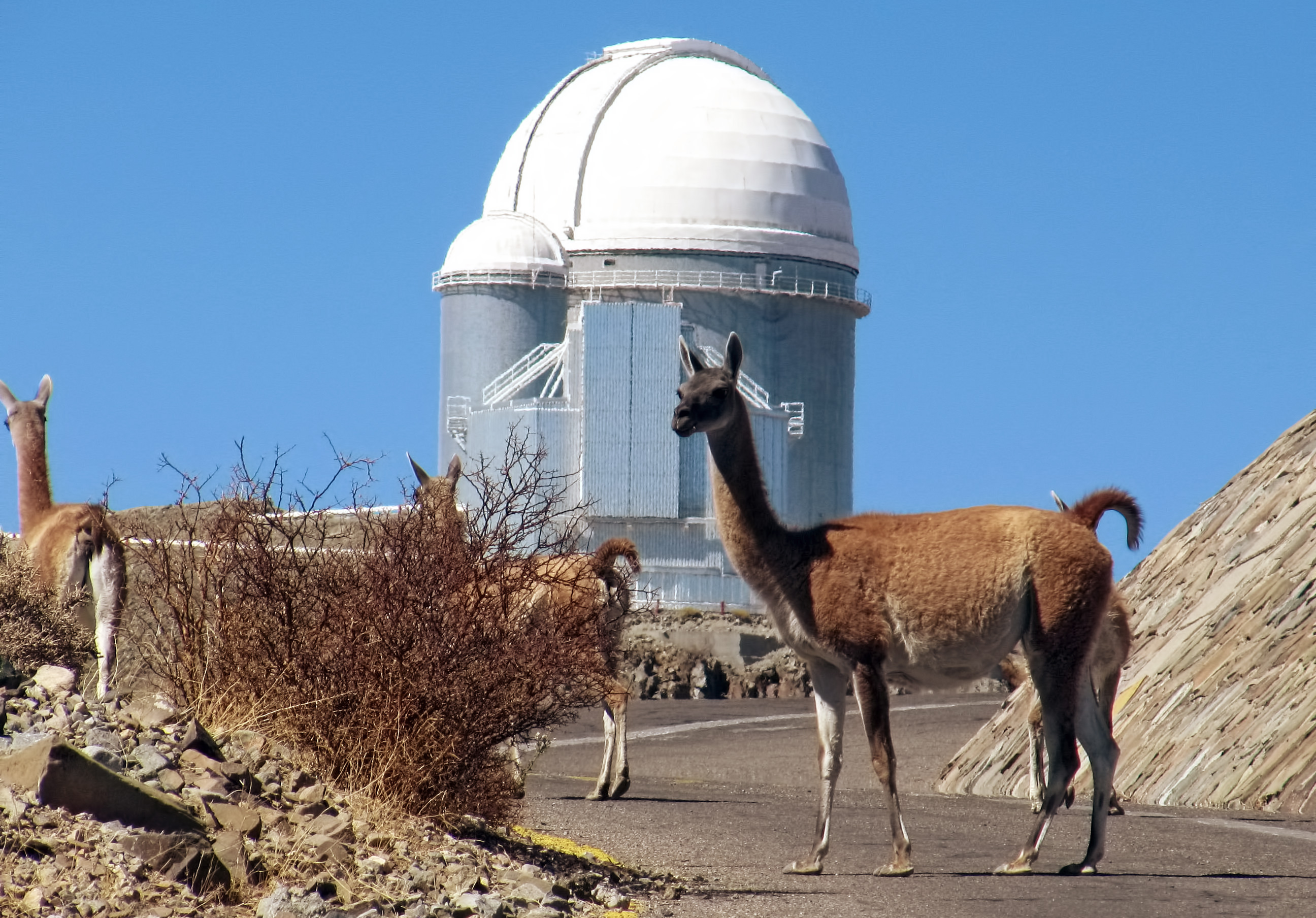 These friendly looking creatures, photographed in front of the ESO 3.6-metre telescope at the La Silla Observatory, are Guanacos. Guanacos, alongside the Vicuña, are one of two types of wild camelid native to this region of northern Chile. Reaching between one and two metres in length (from their heads to their tails) and weighing up to 120 kilograms, guanacos are one of the largest land mammals in Chile. These intrepid adventurers can be found in Bolivia, Paraguay, Argentina, and throughout the Andes: from Tierra del Fuego in the extreme south of Chile all the way up to Peru. Thriving on the feasts of the desert flora, guanacos enjoy mushrooms, grasses, leaves, trees and even some types of cactus flowers as part of their diets. Guanacos and vicuñas are no stranger to ESO’s facilities in the Atacama Desert. In February 2014 a vicuña fawn was rescued by ESO staff when it wandered into a facility for the Atacama Large Millimeter/submillimeter Array (ALMA) on the Chajnantor Plateau. The creature had become separated from its herd after being chased by a fox. It is now recovering at the Wildlife Rescue and Rehabilitation Centre at the Universidad de Antofagasta, and will eventually be returned to the wild.